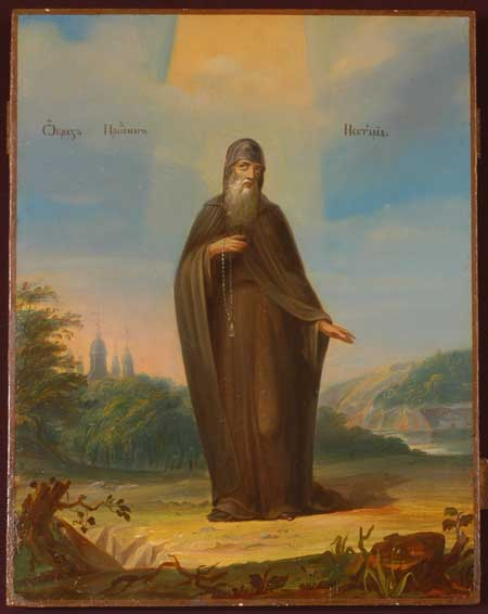 Saint Nectarius of Kyiv Caves, called the Obedient. Orthodox saint. Venerable. 12 th century. Kyiv, Ukraine.